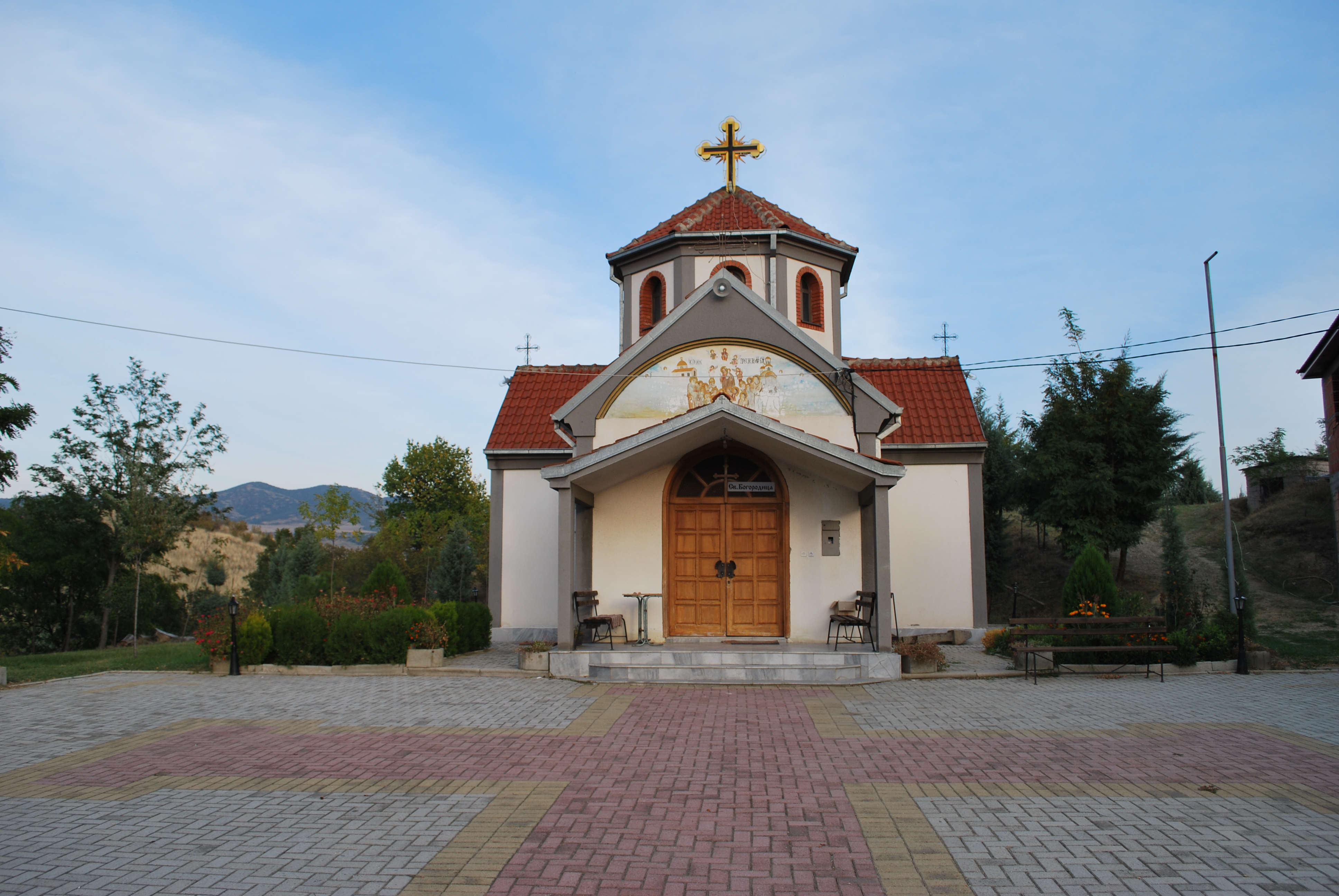 Dormition of the Theotokos Church in Gorno Konjari Monastery, Macedonia This image is uploaded as part of the picture contest Wiki Loves Cultural Heritage in Macedonia 2013. English | македонски | +/−